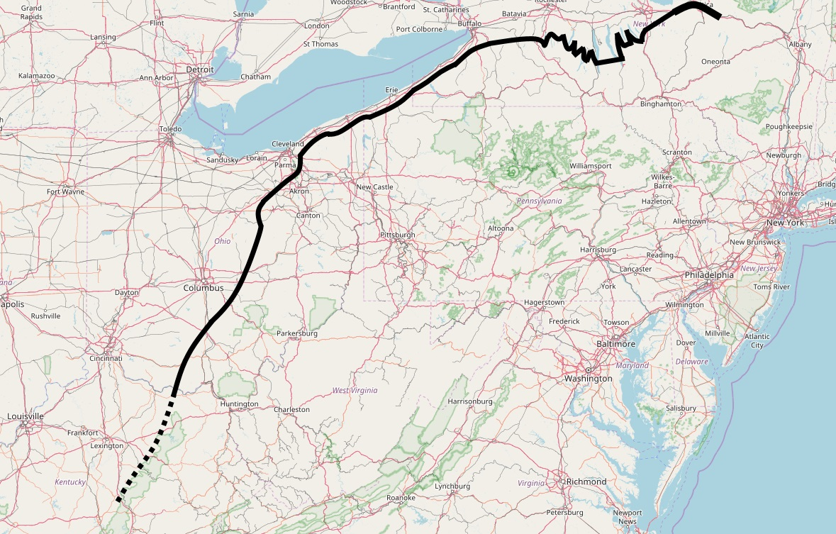 Rough map of the Portage Escarpment (black line) as it begins in eastern New York state and moves across New York, Pennsylvania, and Ohio into Kentucky (where it becomes the Highland Rim). Escarpment route based on information in: Bolsenga, Stanley J.; Herdendorf, Charles E. (1993). "Introduction". In Bolsenga, Stanley J.; Herdendorf, Charles E. Lake Erie and Lake St. Clair Handbook. Detroit: Wayne State University Press. ISBN 9780814324707; Cushing, Henry Platt; Leverett, Frank; Van Horn, Frank R. (1931). Geology and Mineral Resources of the Cleveland District, Ohio. Bulletin 818. Washington, D.C.: U.S. Geological Survey; and Pearson, C.S.; Johnsgard, J.A.; Secor, Wilber; Kerr, H.A.; Westgate, P.J.; Kirby, R.H.; Goodman, R.B.; Cline, M.G.; Simmons, C.S.; Granville, J.M. (August 1956). Soil Survey: Livingston County, New York. Series 1941, No. 15. Washington, D.C.: Soil Conservation Service, U.S. Department of Agriculture. This map of Northeast, U.S. was created from OpenStreetMap project data, collected by the community. This map may be incomplete, and may contain errors. Don't rely solely on it for navigation.